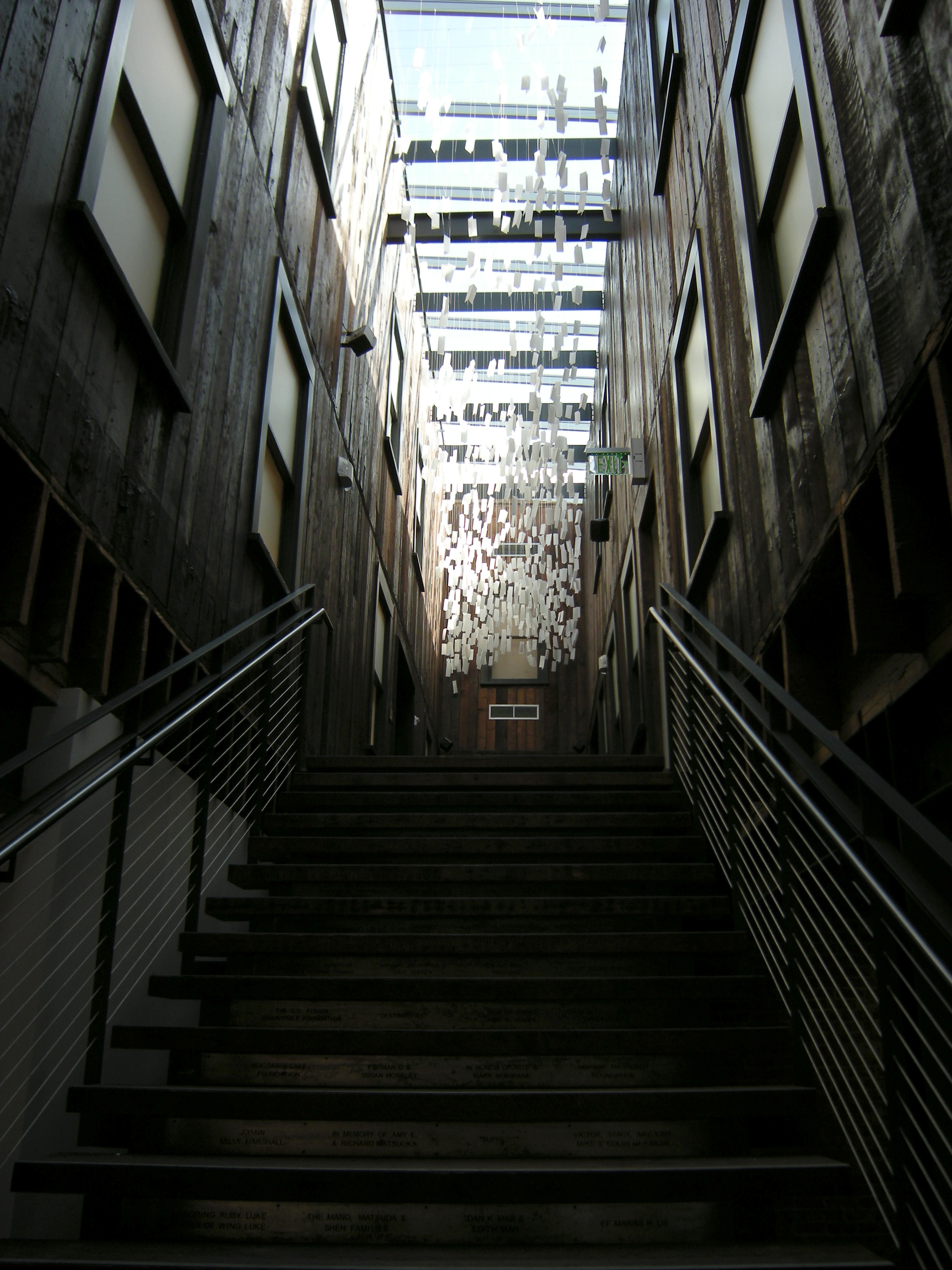 Looking up the Ron Chew staircase of the Wing Luke Asian Museum, East Kong Yick Building, 715-725 S King Street, International District, Seattle, Washington. The space at the top was originally an open "light well"; now covered with a skylight.